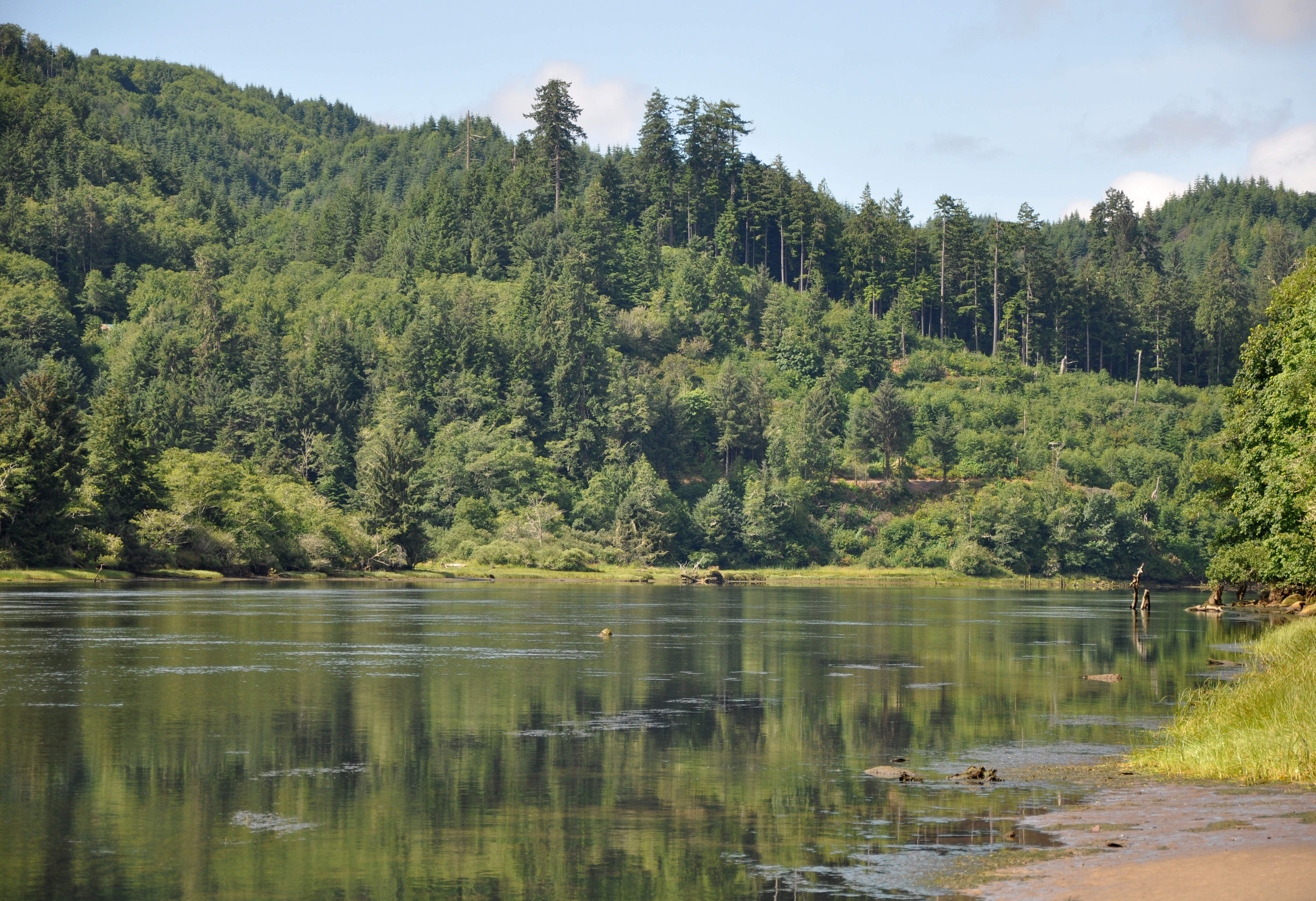 Smith River northeast of Reedsport in the U.S. state of Oregon. Seen from Lower Smith River Road.